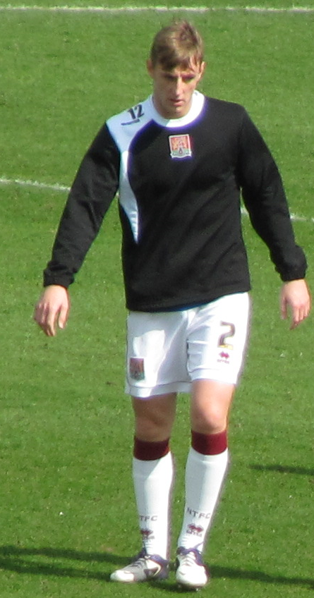 Pictured during the 2-2 draw between Port Vale and Northampton Town on 20 April 2013.